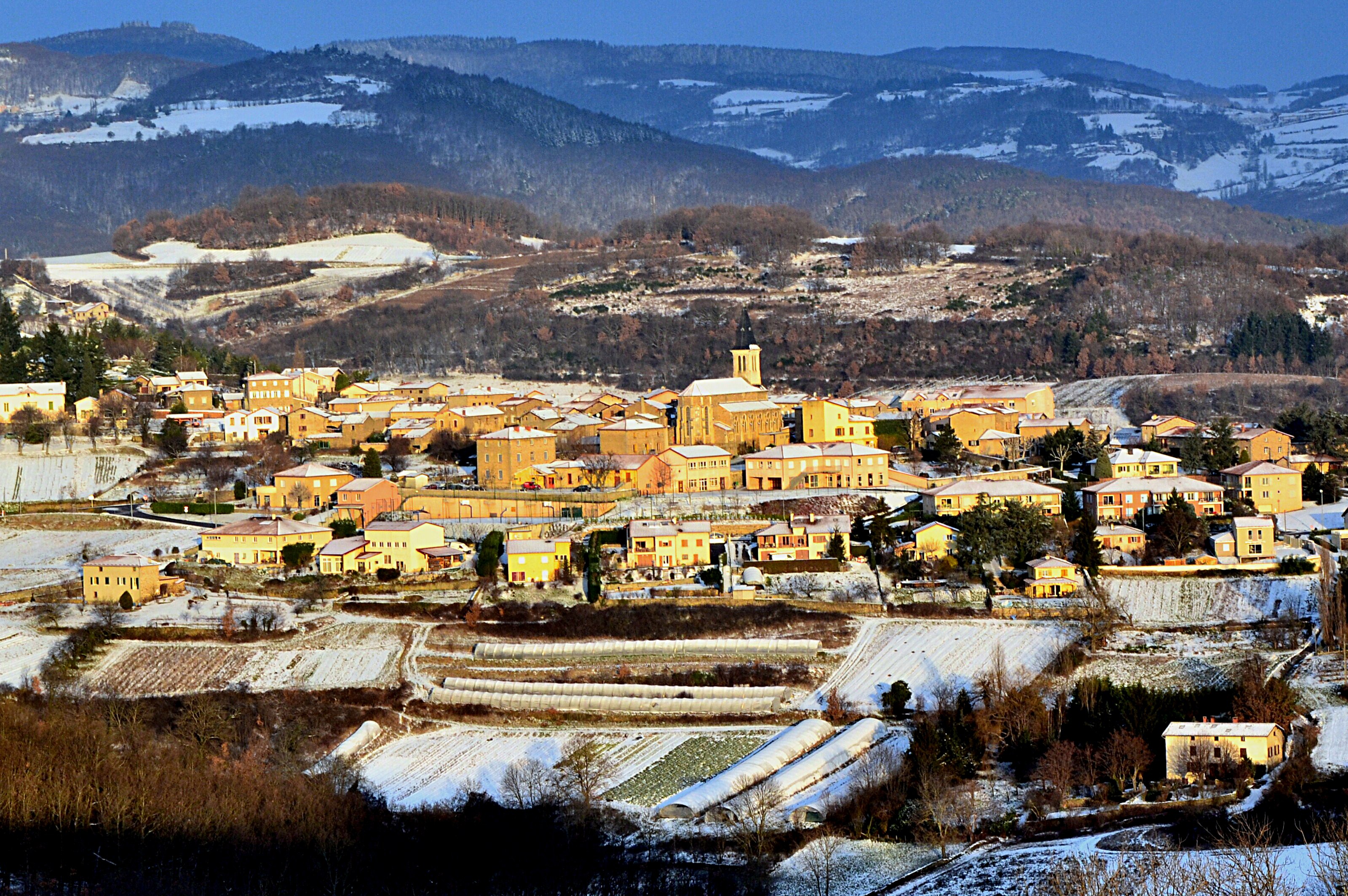 Panorama of winter Rontalon Road Mornant, Rhône, France